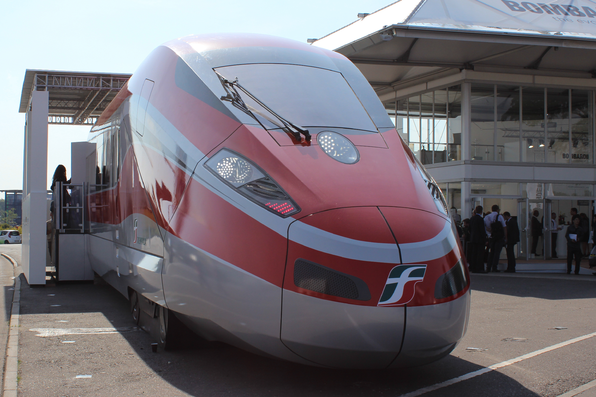 Photo of the Frecciarossa 1000 Mockup on InnoTrans 2012